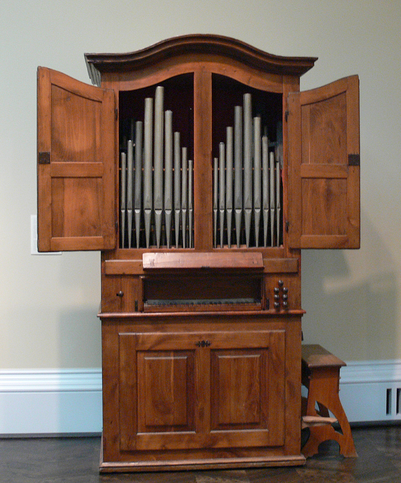 Meadows Museum at SMU, Dallas, Texas Organ by Pascoal Caetano Oldovini, 1762